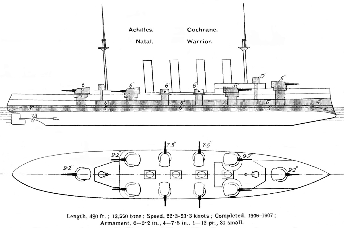 Right elevation and deck plan of British Warrior class armored cruiser. Numbers on top diagram show armour thickness (shaded areas) in inches. Numbers on bottom diagram show size of guns in inches.